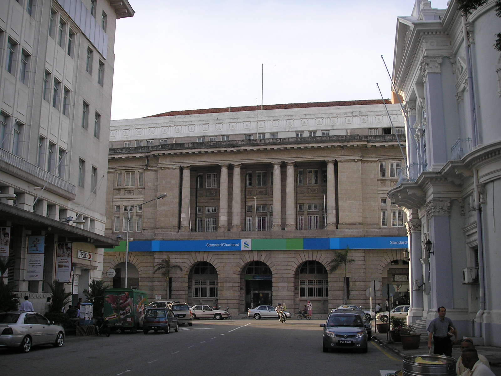 Image of the Standard Chartered Bank building at Beach Street in George Town, Penang.